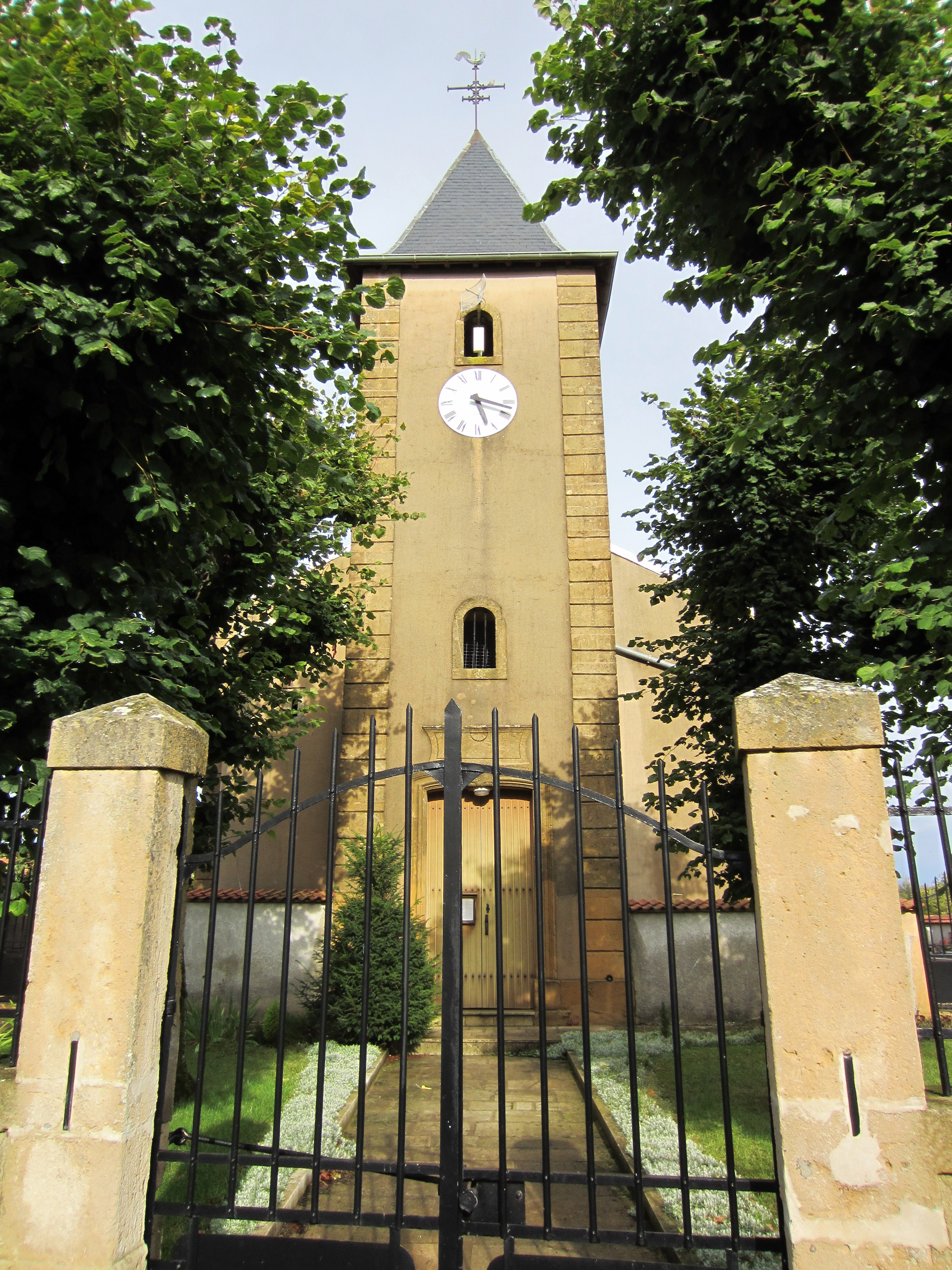 Description eglise St Marcel M&M eglise St Marcel M&M